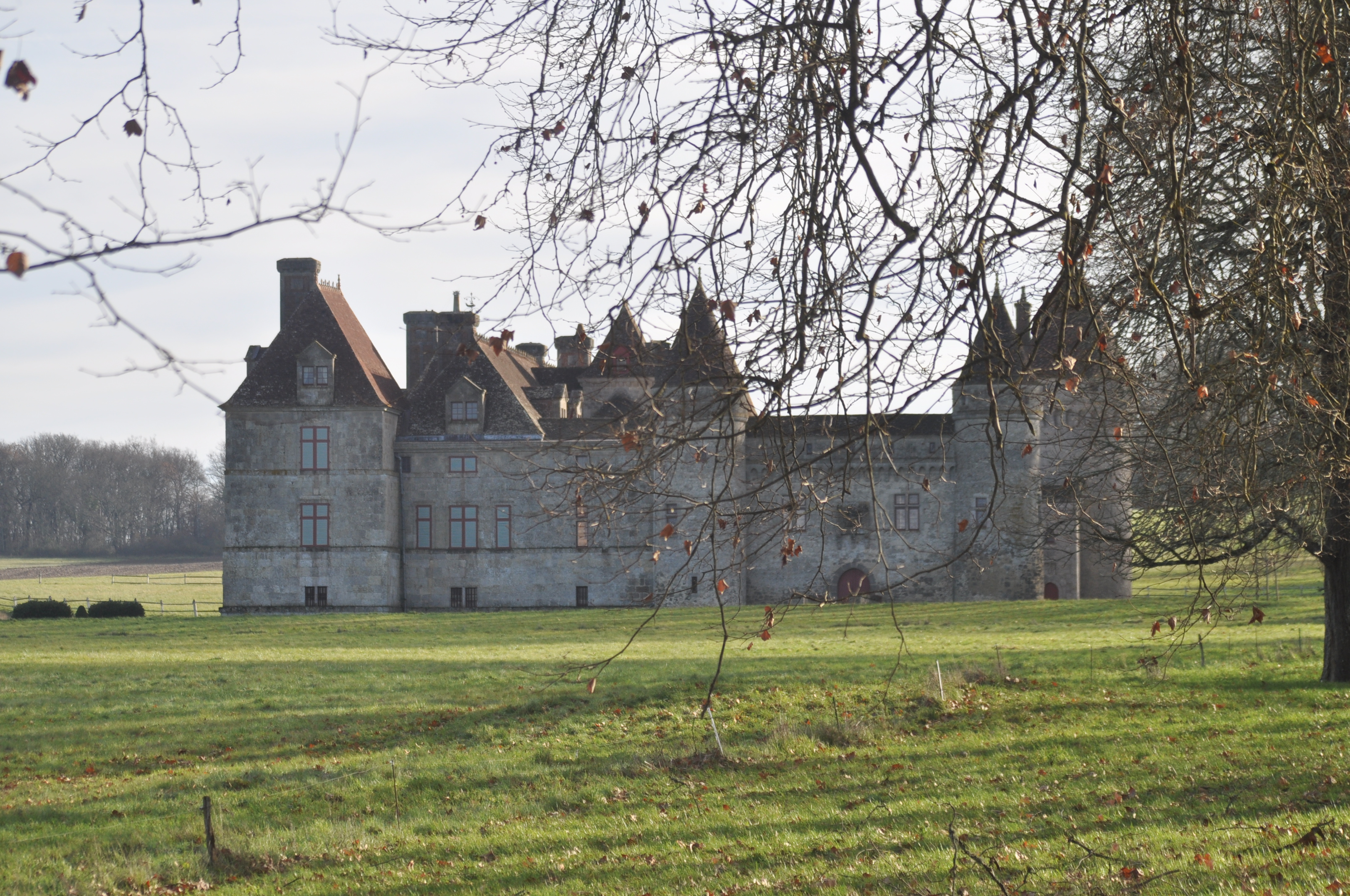 Castillo du Sendat desde el Oeste